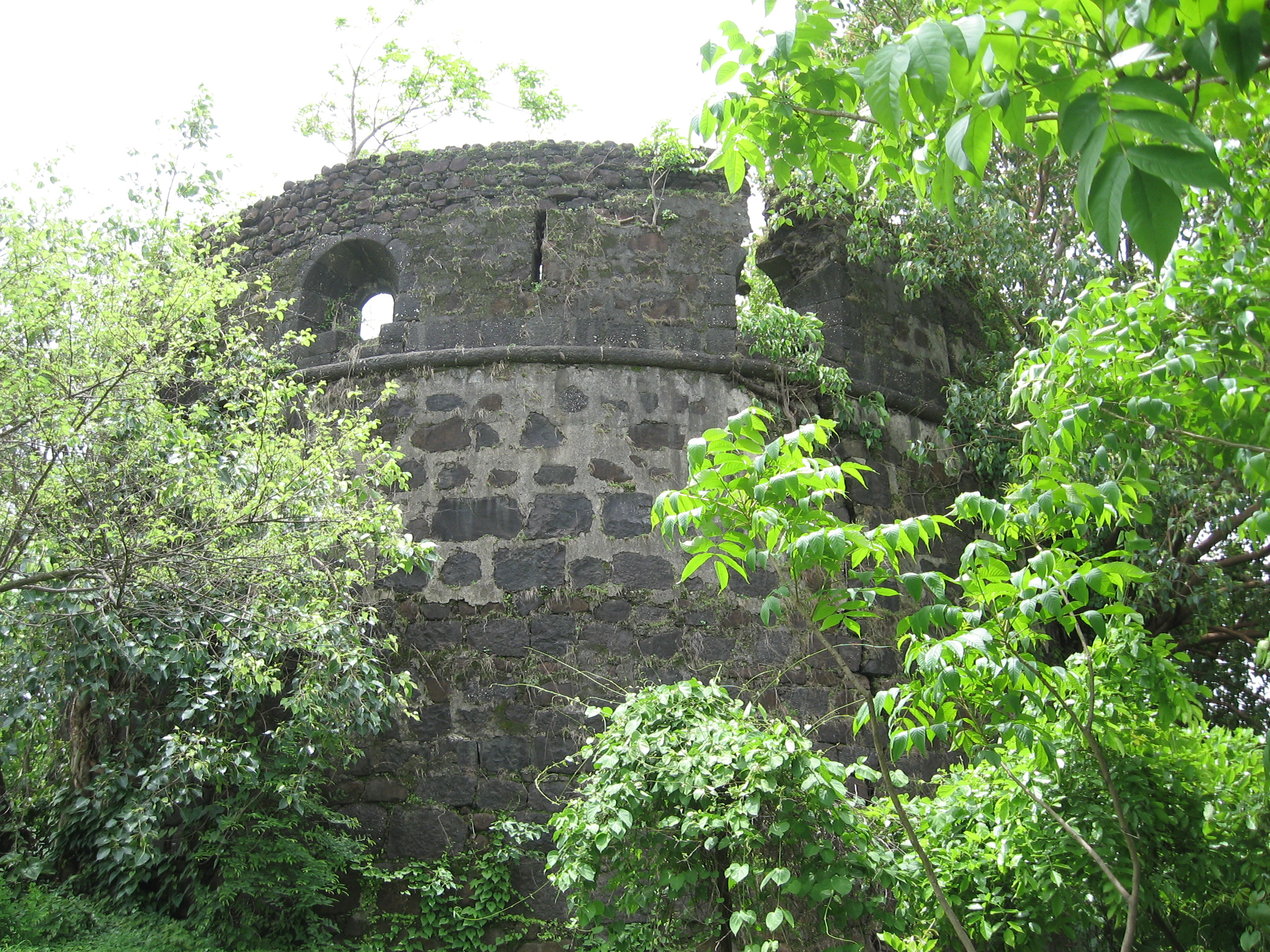 Belapur Fort in Navi Mumbai (New Bombay), built by the Siddhis in the mid sixteenth century. It overlooks the Panvel creek and Mumbai harbour.